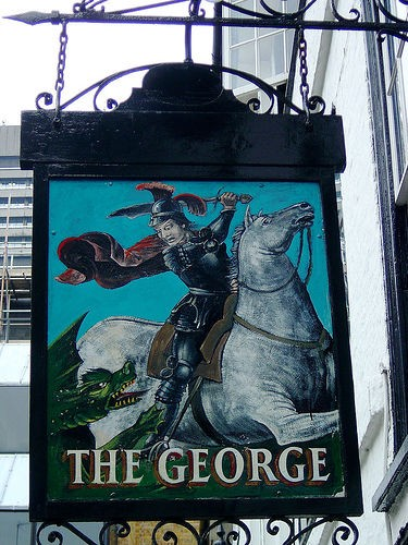 Pub Sign, The George Public House, Southwark, London, UK, 2005. Taken by Nick Fraser.